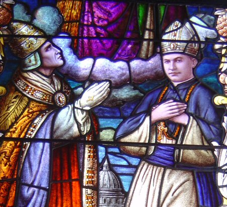 Pic taken and uploaded by User: Aloysius Patacsil In a window in the Cathedral of Our Lady of Peace in Honolulu, Pope Pius XI prayerfully gazes to Saint Joseph, patron of the universal Church, with Msgr. Stephen Alencastre, Vicar Apostolic of the Hawaiian Islands at his side.